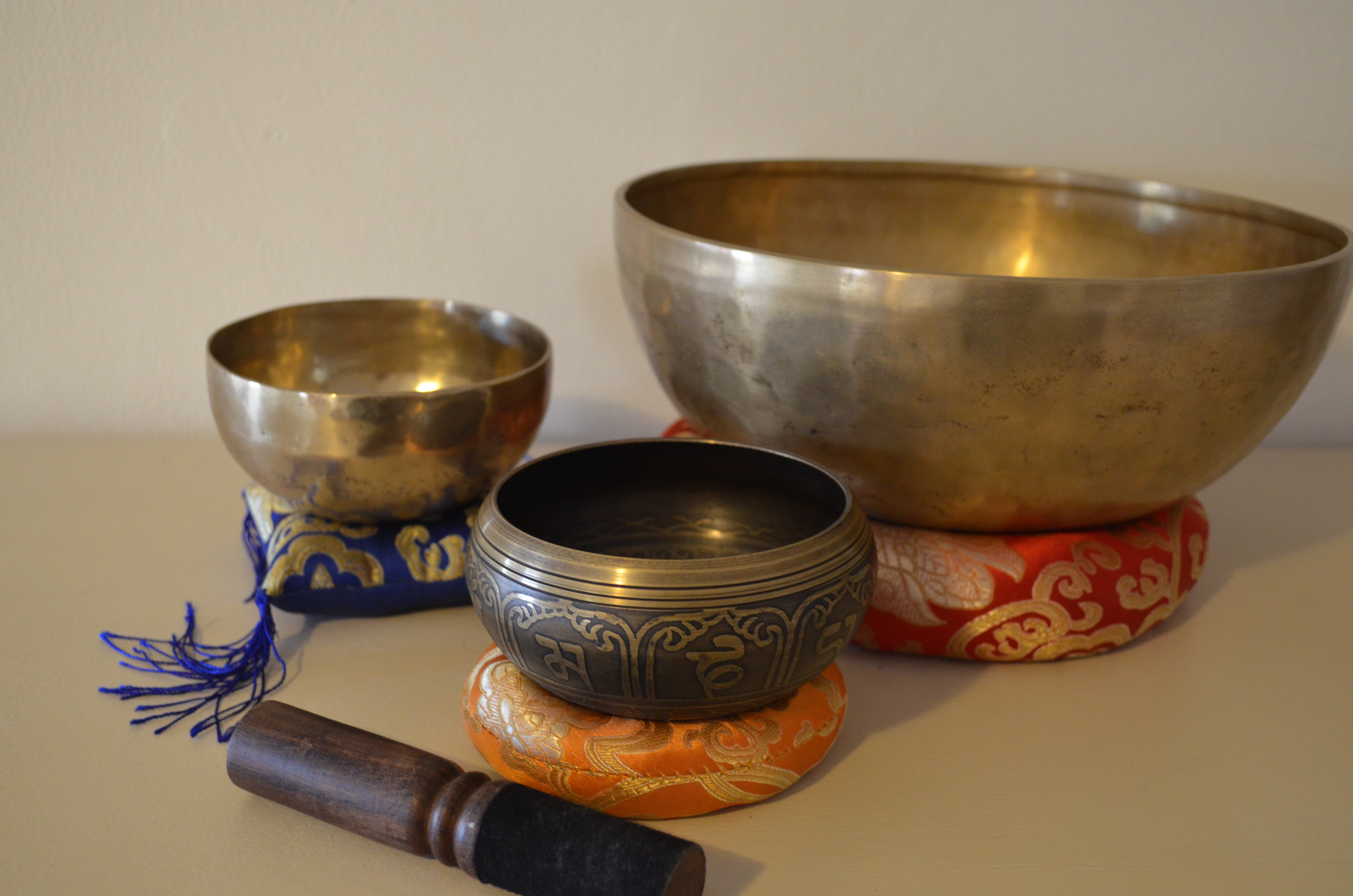 Tibetan Singing Bowls: one 11" and two 4.5"